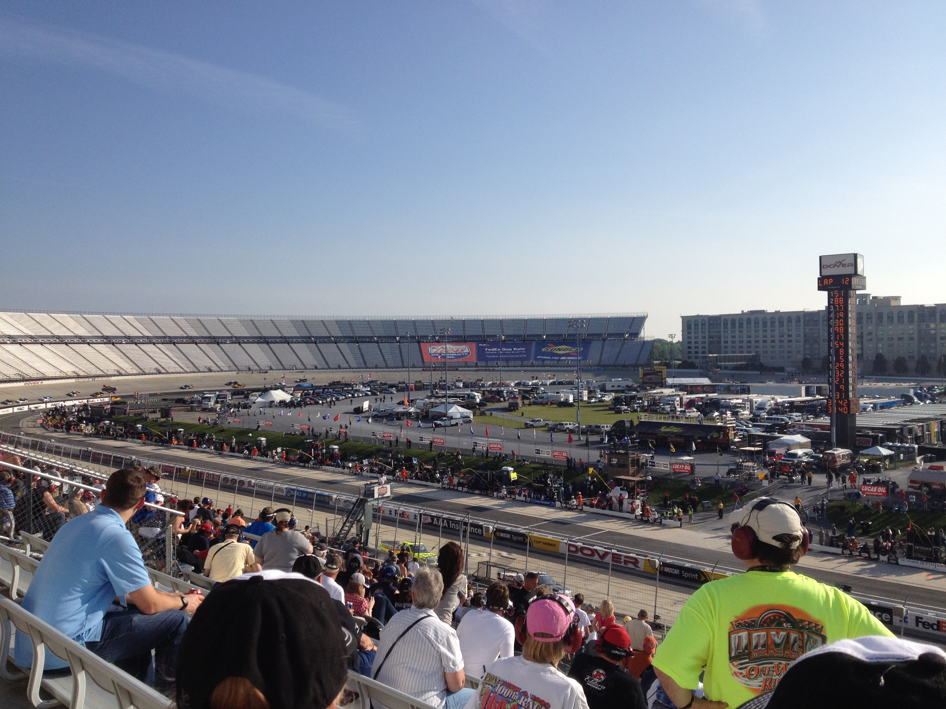 The 2014 Lucas Oil 200 at Dover International Speedway viewed from the frontstretch. Kyle Busch (#51) leads Matt Crafton (#88) and the rest of the field on lap 12.